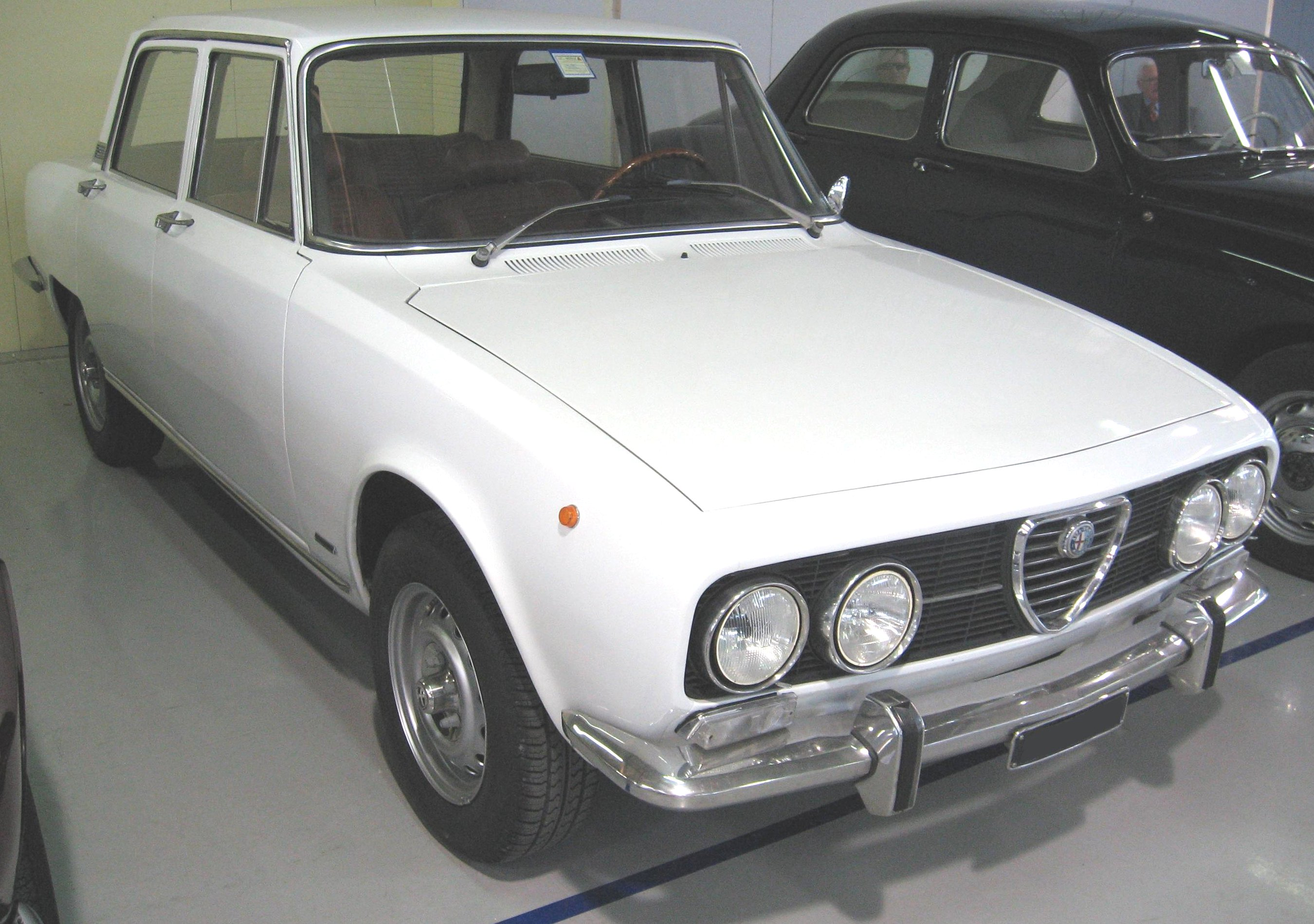 Alfa Romeo 2000 berlina